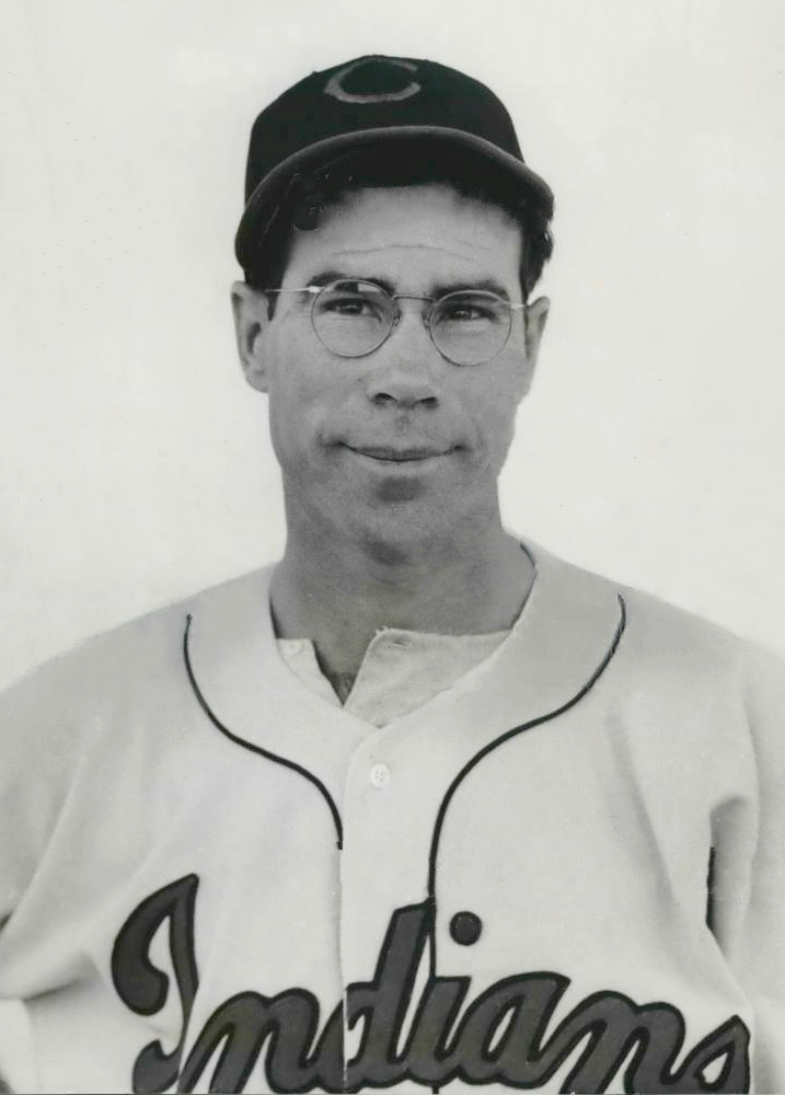 1950 Press Photo Thurman Tucker-Indian Baseball player - cvb42863.